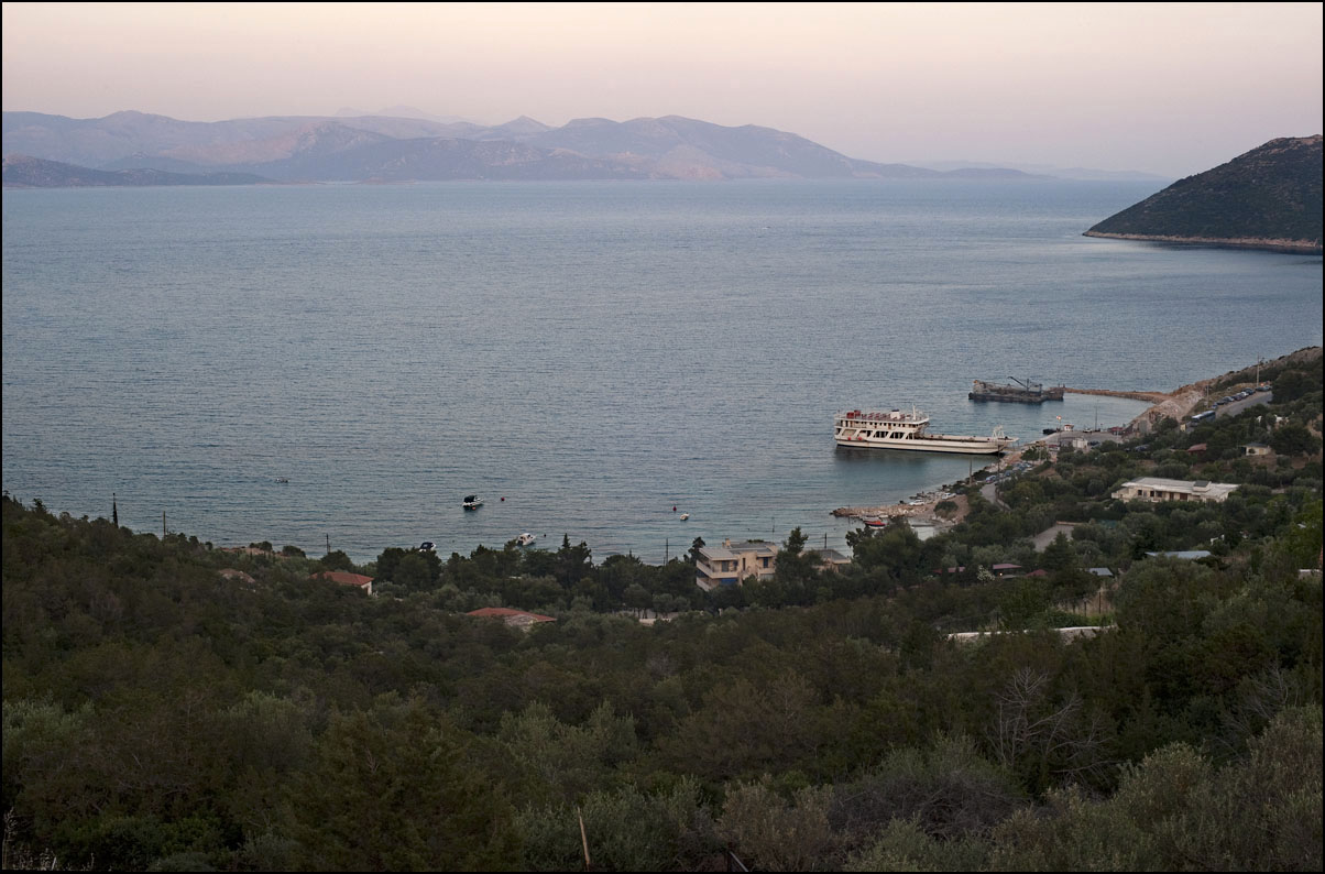 Port of Agia Marina / Grammatiko, Attica, Greece. From this port there is a ferry connection between Attica and Evia (Nea Styra) island.